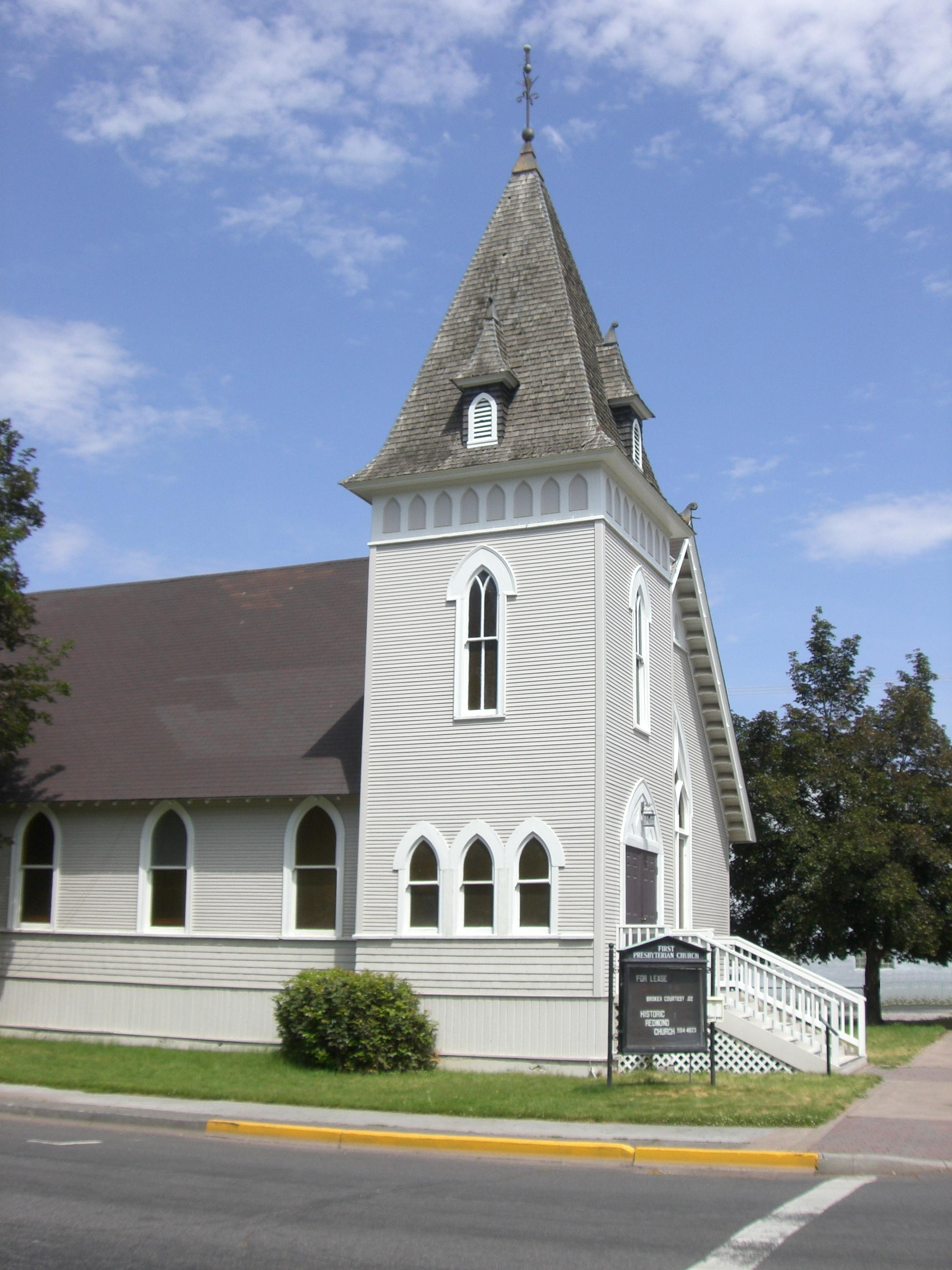 First Presbyterian Church of Redmond in Redmond, Oregon; listed on the National Register of Historic Places in 2001 (NRHP #01000931)